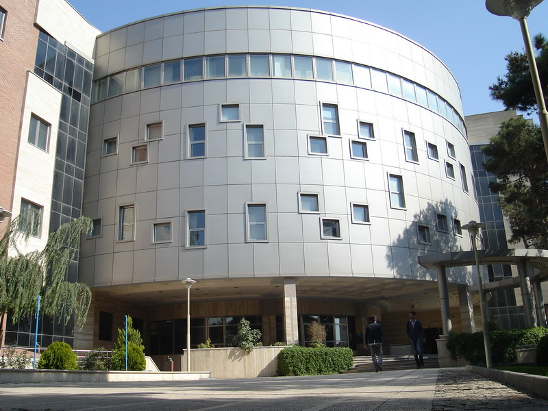 Department of Computer Engineering, Iran University of Science and Technology